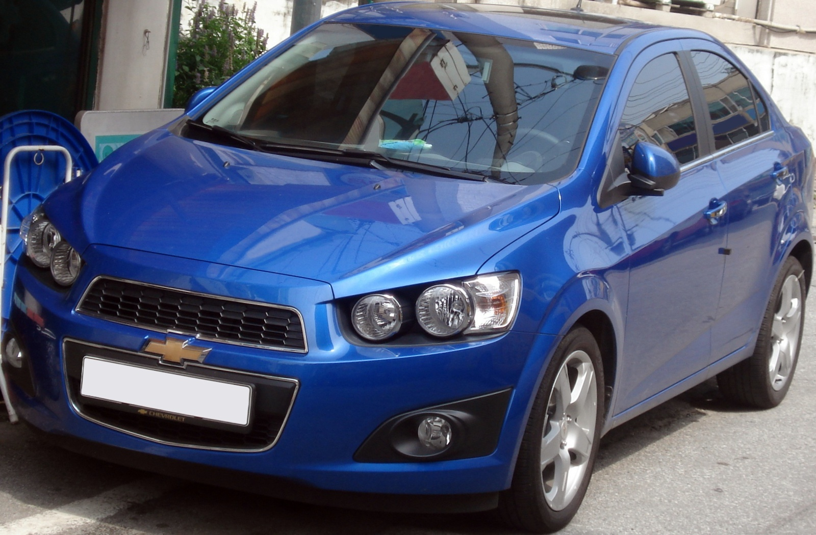 Chevrolet Aveo